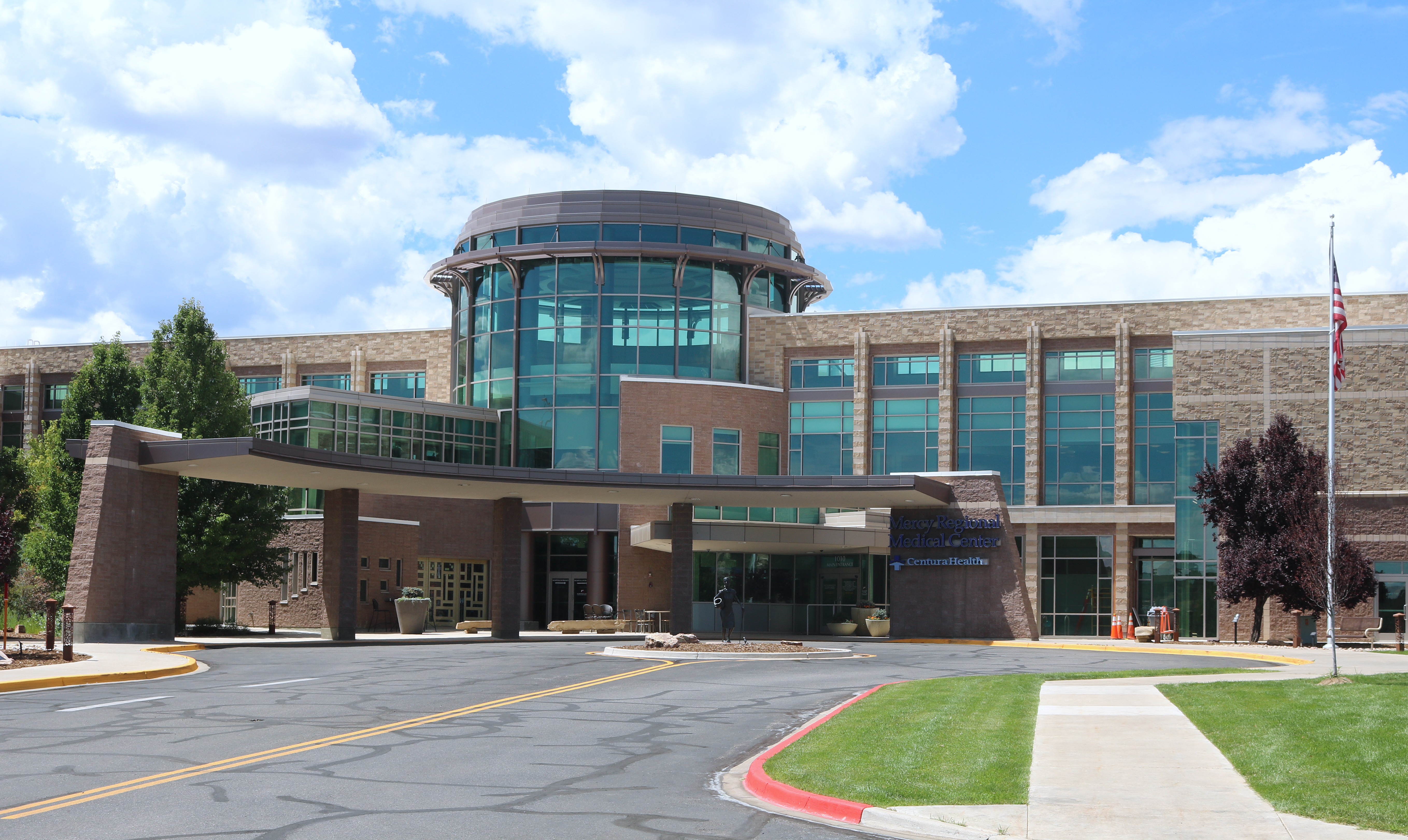 Mercy Regional Medical Center, located at 1010 Three Springs Boulevard in Durango, Colorado 81301. The hospital is in the Centura Health network.